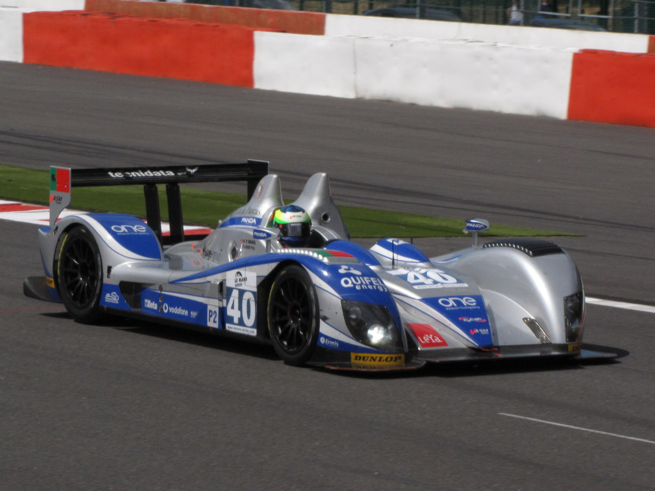 Olivier Pla in a Ginetta-Zytek GZ09S/2 at the 1000 km of Spa 2009.